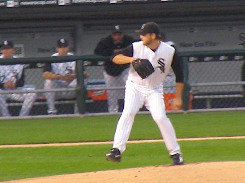 Baseball player Mark Buehrle of the Chicago White Sox, on the mound at U.S. Cellular Field.